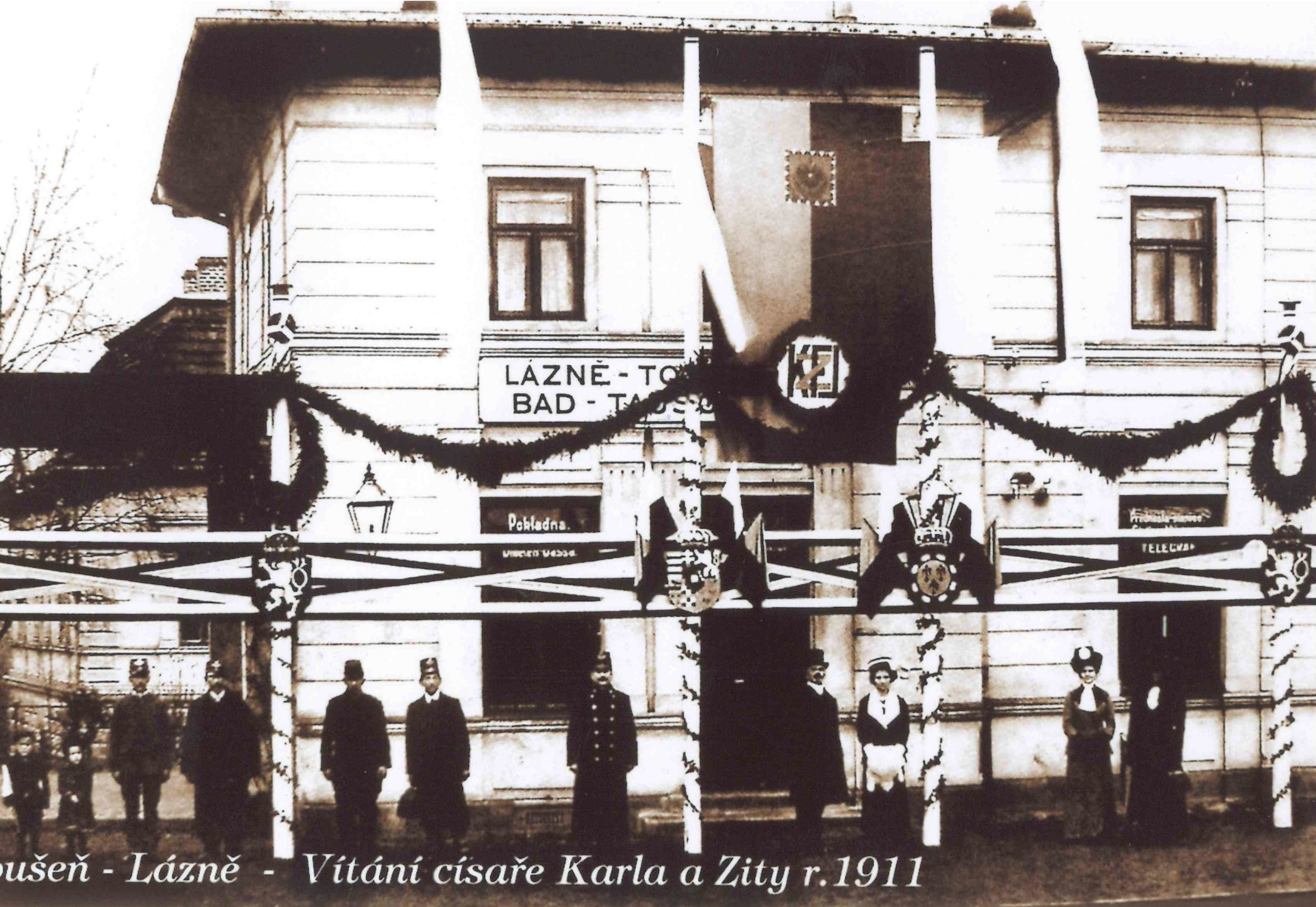 Lázně Toušeň - welcoming Emperor Charles